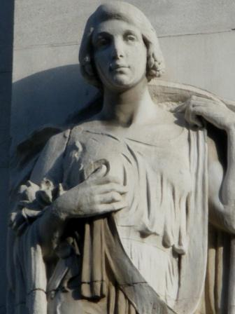 Part of Louis Frederick Roslyn's "Commerce" which appears above 70-71 New Bond Street. The woman holds a bunch of flowers under one arm.